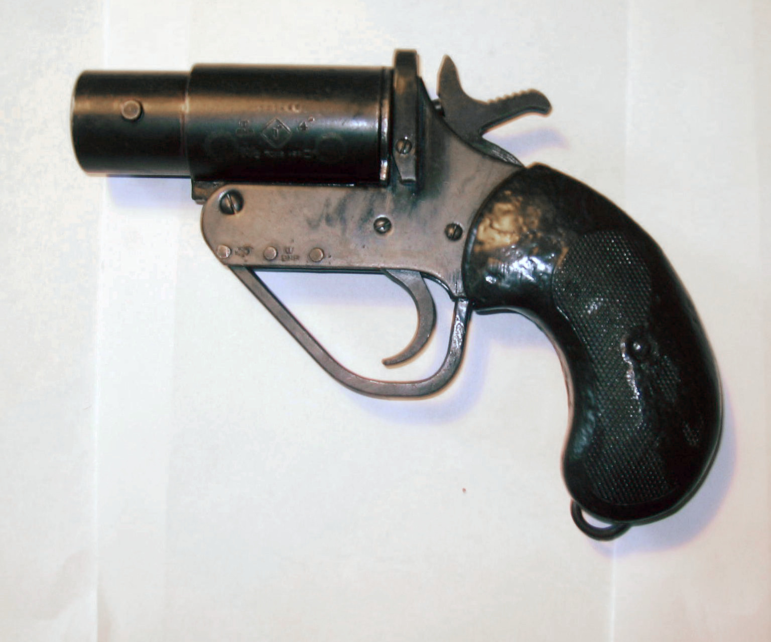 A Molins No 1 signal pistol (Very Pistol) from the 1940s made by Berridge Ltd.